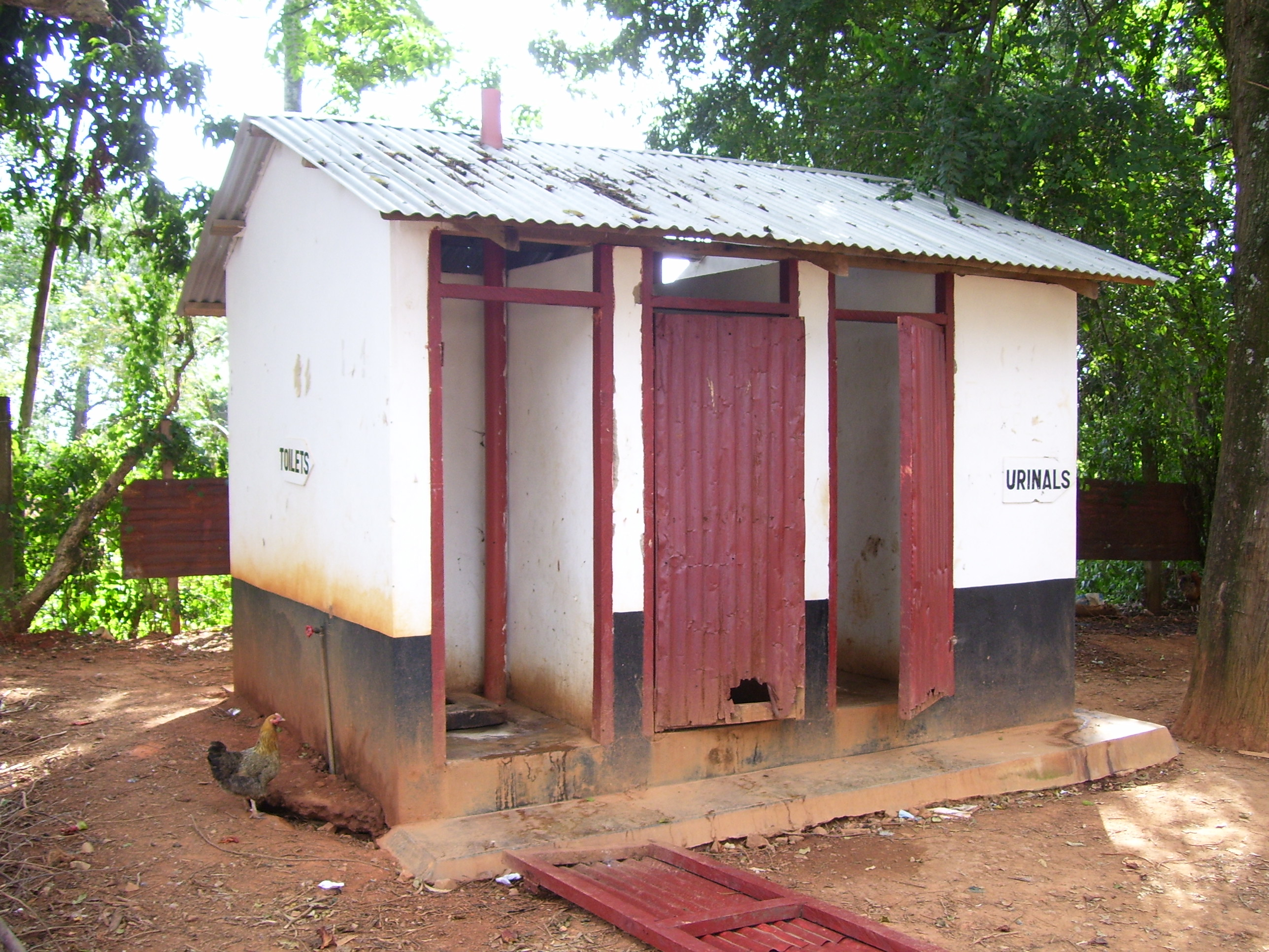 Ambira Boys High School, Nyanza Province, Kenya